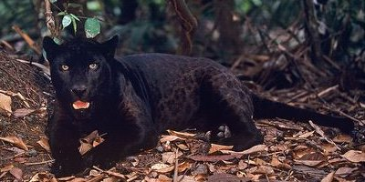 Black Jaguar laying down